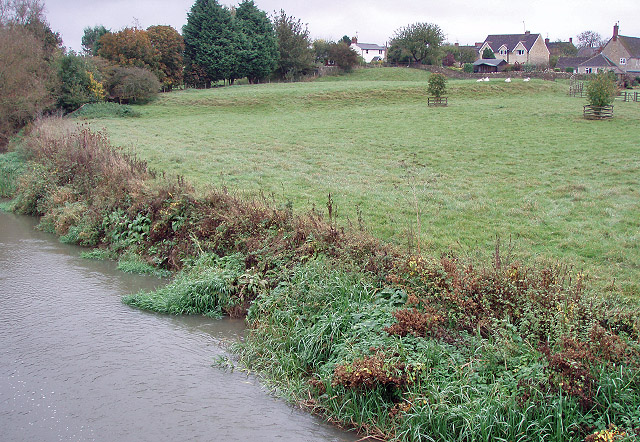 Motte and Bailey, Ascott Earl The original structure was probably wooden, so now there's only earth banks to see.